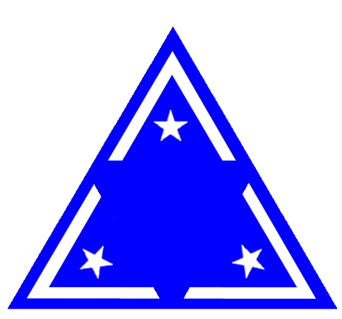 Republic of Korea Army 3rd Infantry Division(White Skull Division) Insignia